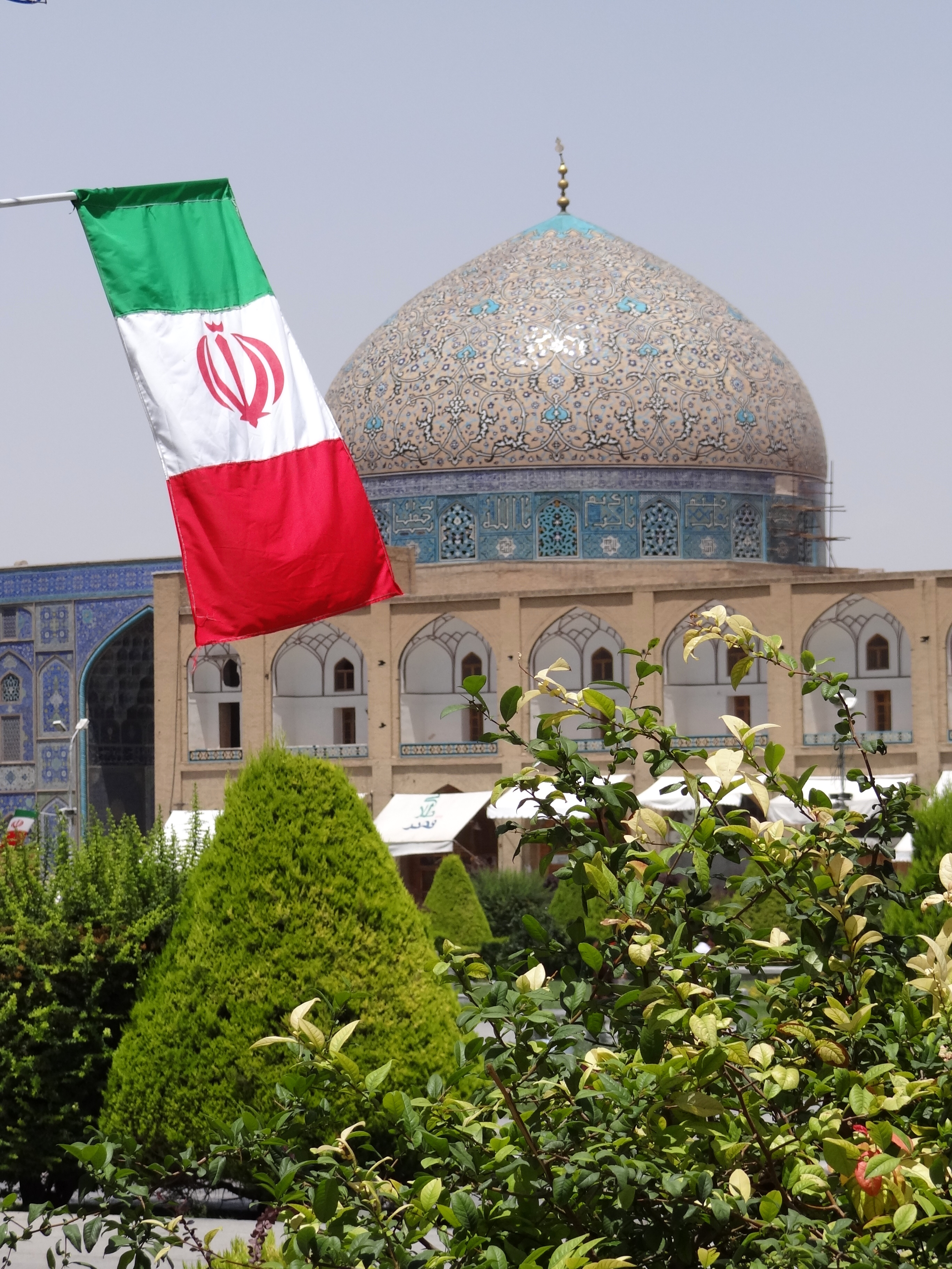 Iranian Flag with Sheikh Lotfollah Mosque at Rear, Naqsh-e Jahan, Isfahan, Iran